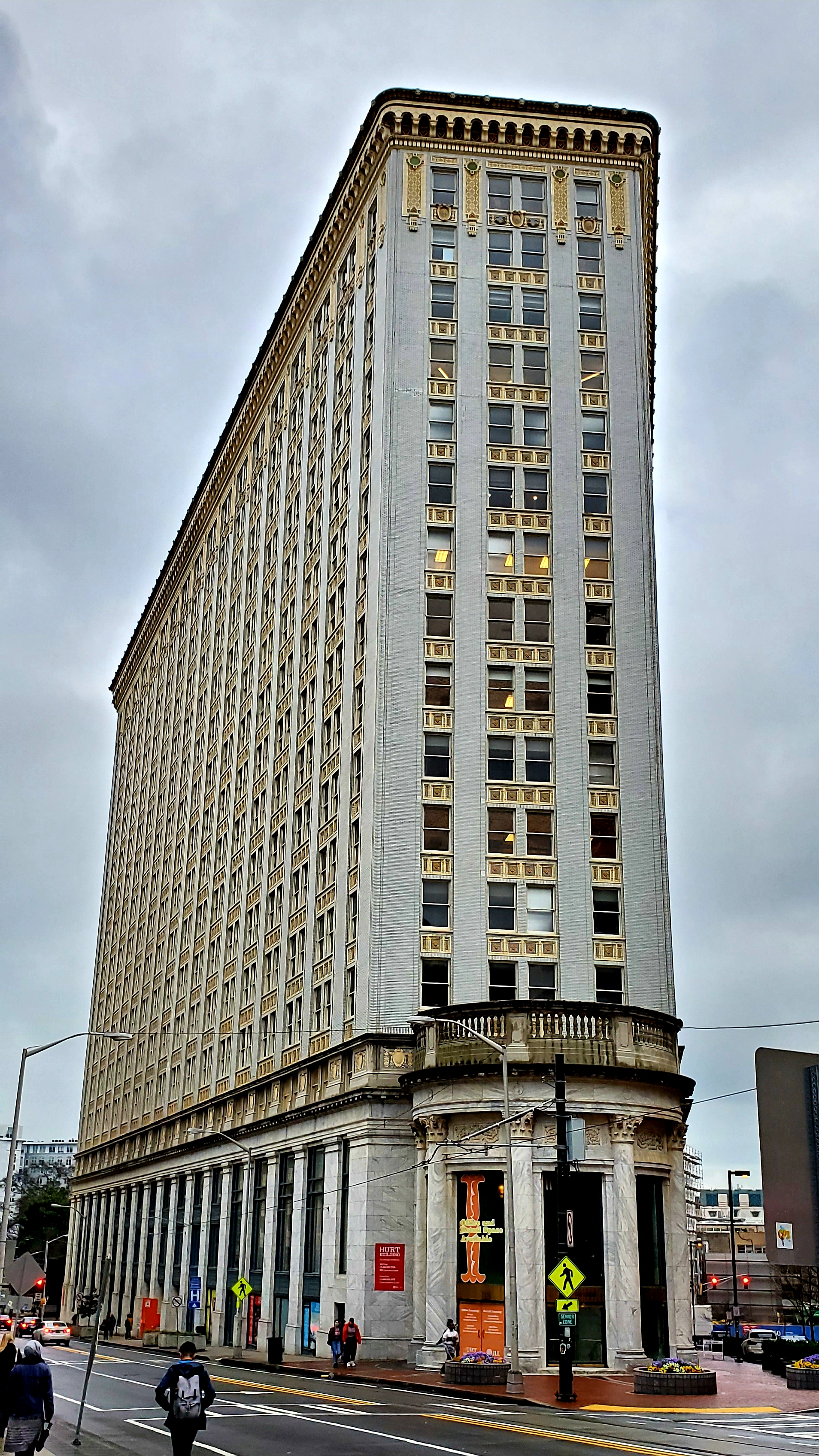 Hurt Building in downtown Atlanta, Georgia.